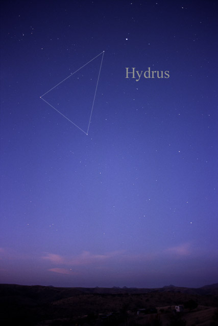 Photo of the constellation Hydrus, the water snake